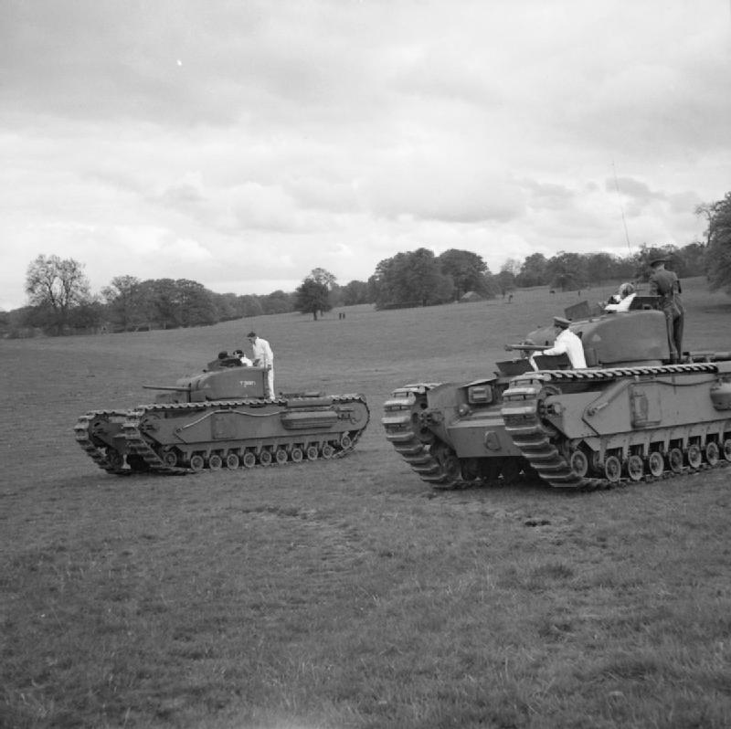 The British Army in the United Kingdom 1939-45 Winston Churchill in the turret of a Churchill I tank (nearest camera) during a demonstration of the new vehicle at Vauxhall's at Luton, 23 May 1941. Sir John Dill, Chief of the Imperial General Staff, is in the second vehicle. These were the first two production models of the new tank, named for the Prime Minister.